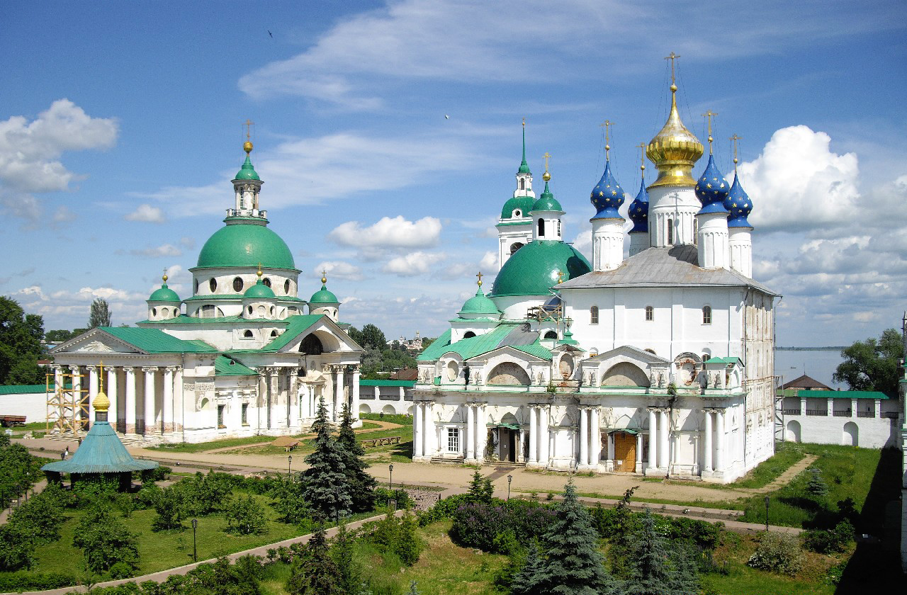 Monastery of St. Jacob Saviour. Dmitry Cathedral and Conception of Anna Church, Rostov Veliky, Yaroslavl oblast